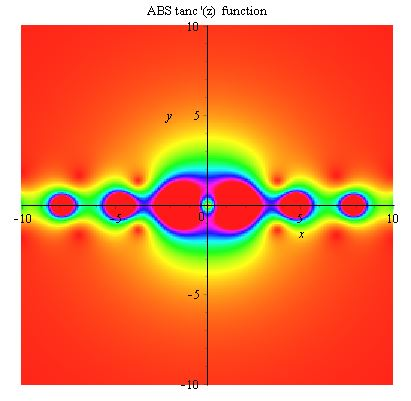 Tanc'(z) abs plot